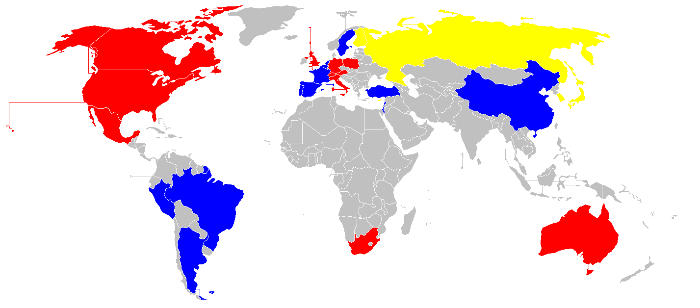 map showing incest laws around the world, updated from Eduardo Sellan III